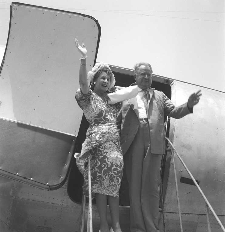 Dr. Henry F.Grady, U.S. Ambassador-designate to India and Mrs. Grady photographed on their arrival at Willingdon aerodrome, New Delhi, on June 25, 1949. Photo Number:-454th